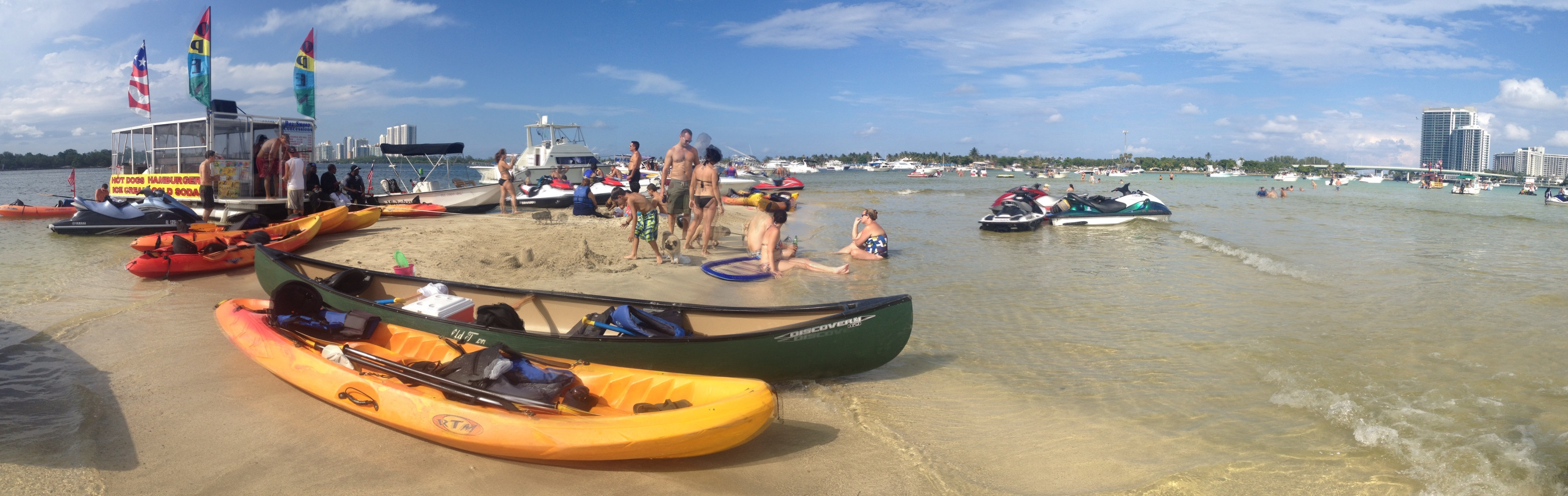 A low tide sandbar in Biscayne Bay north of Miami, USA between North Miami, Haulover inlet and North Miami Beach.